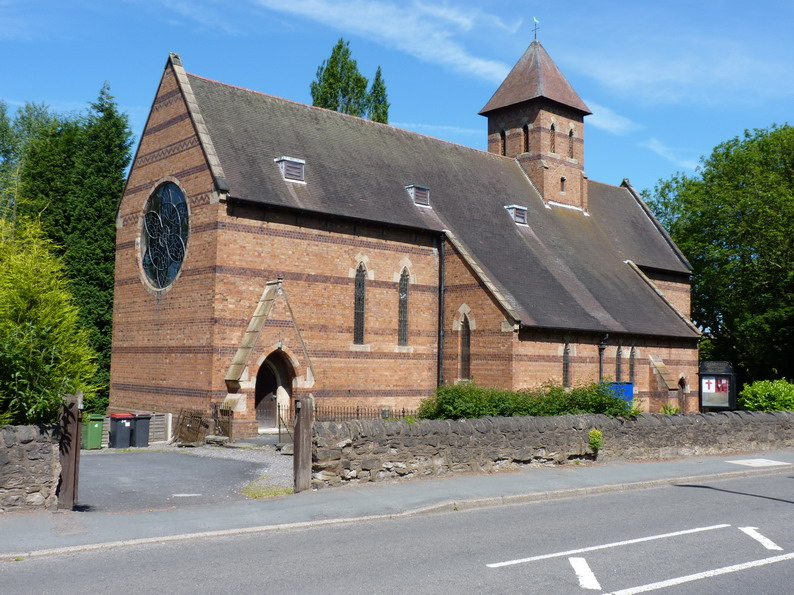 Holy Trinity parish church, Holyhead Road, Oakengates, Shropshire, seen from the west